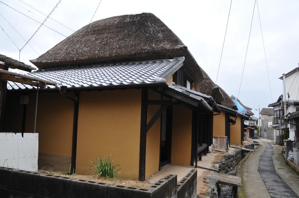 hamasyuku kashima saga japan